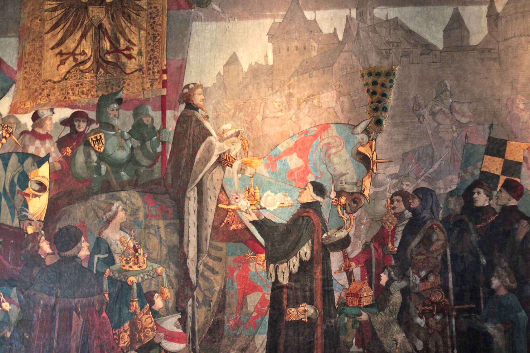 Detail of a "cinemascope" painting by Léo Schnug, particularly difficult to photograph because of its location